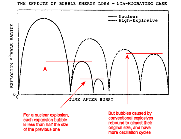 NUMBER OF OSCILLATIONS IN DIAMETER OF BUBBLE CAUSED BY UNDERWATER EXPLOSIONS